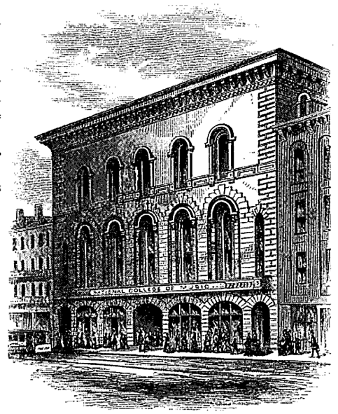 engraved view of second Tremont Temple, Tremont Street, Boston, Massachusetts ca. 1872